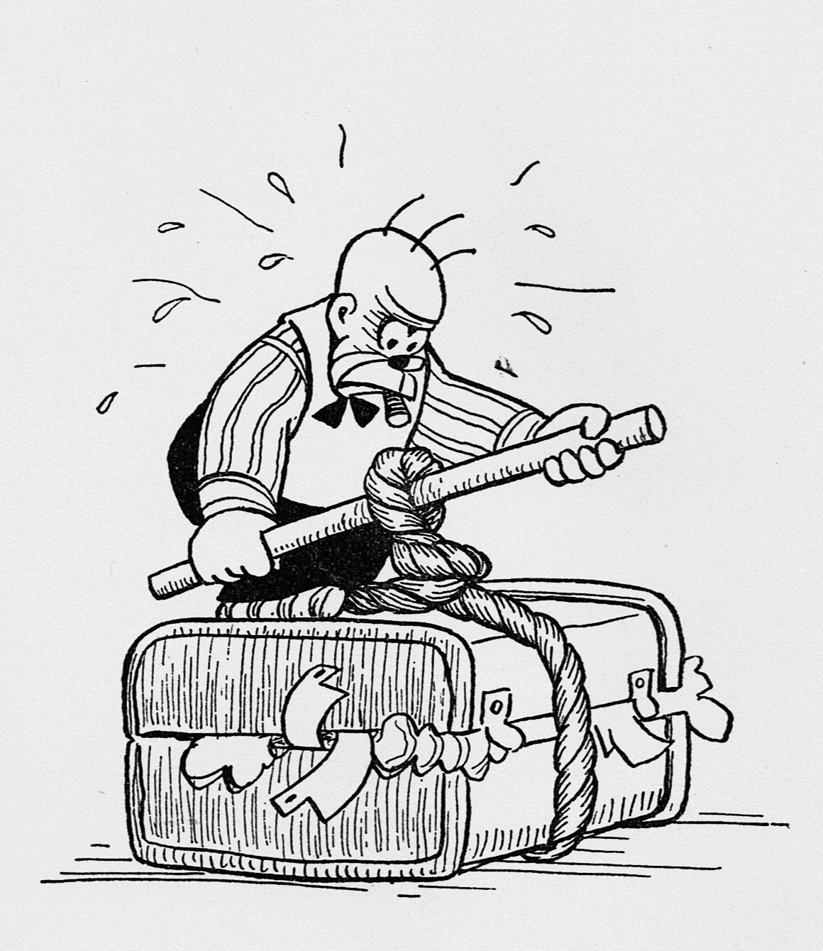 Cartoon Adamson